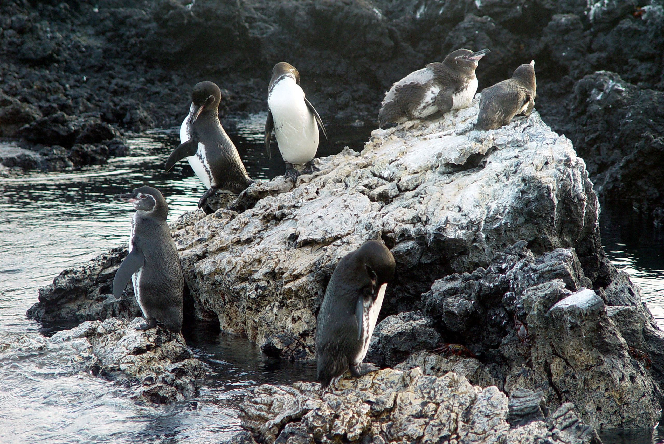 Galápagos penguins (Spheniscus mendiculus), Galápagos, Ecuador